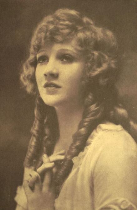 =Still from the American comedy drama film Anne of Green Gables (1919) with Mary Miles Minter, on page 347 of the November 1919 Munsey's Magazine.